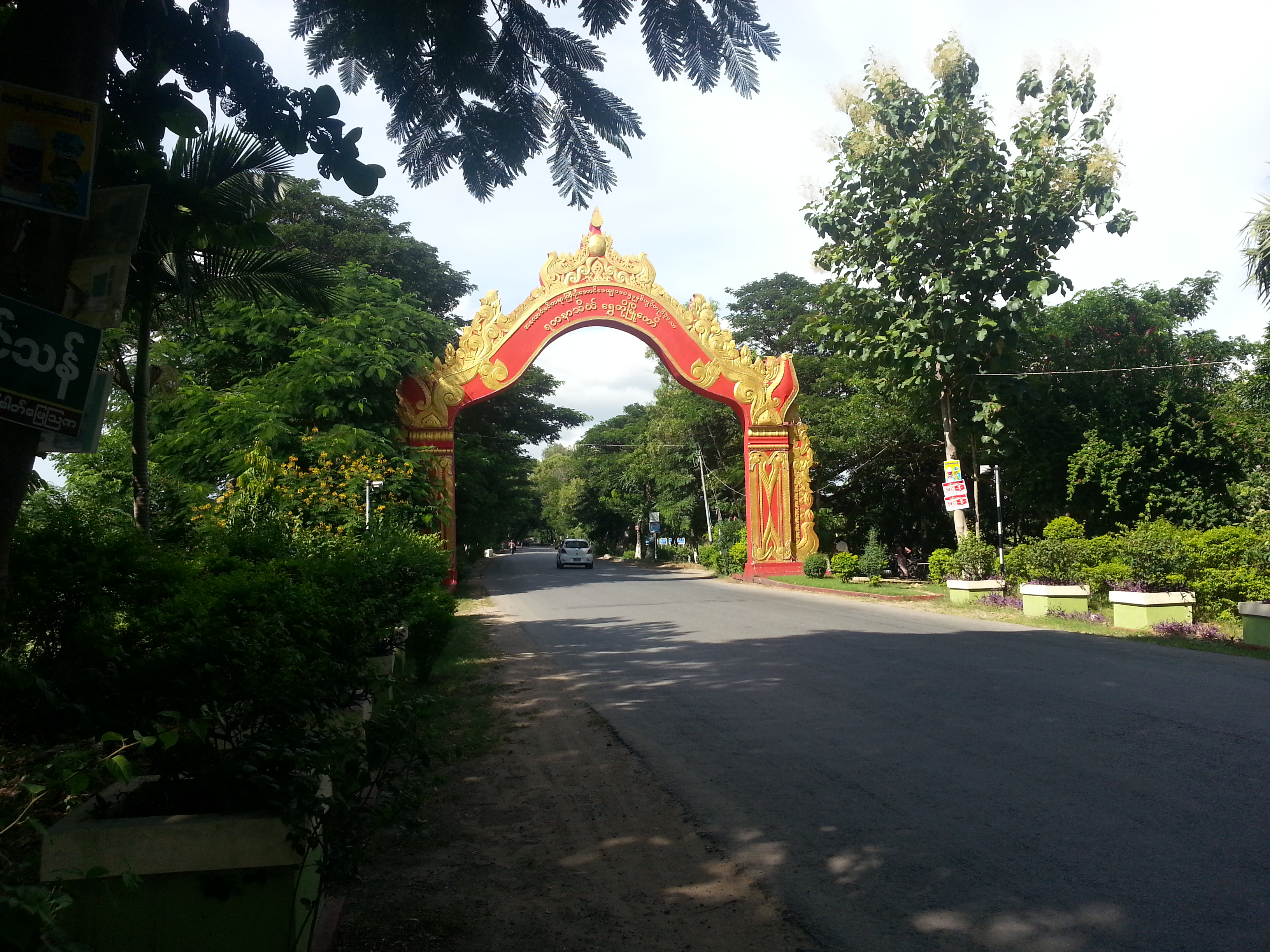 Welcome sign of Shwe Bo Town